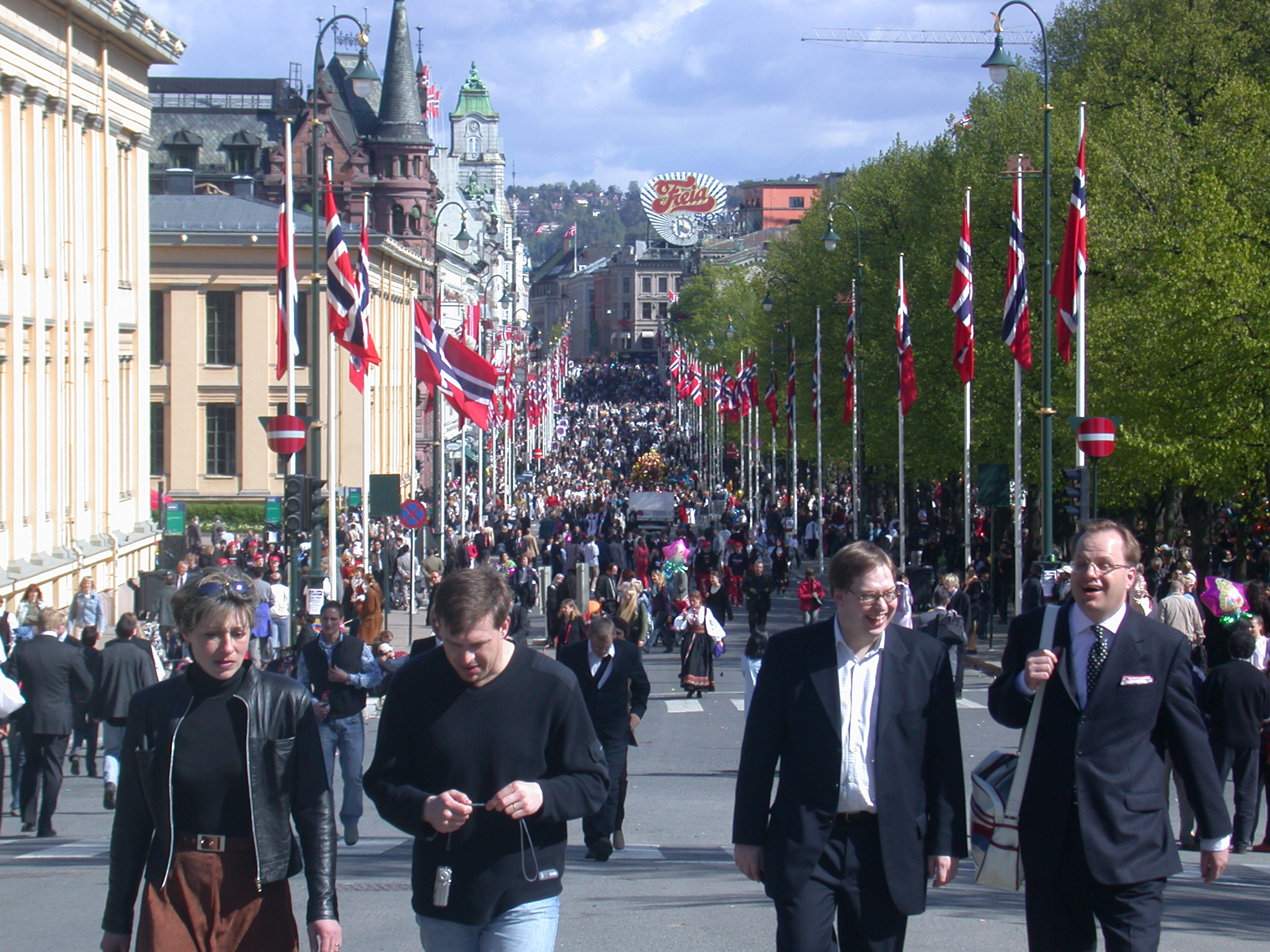 The Karl Johans street during the Norwegian national day 17th of may.